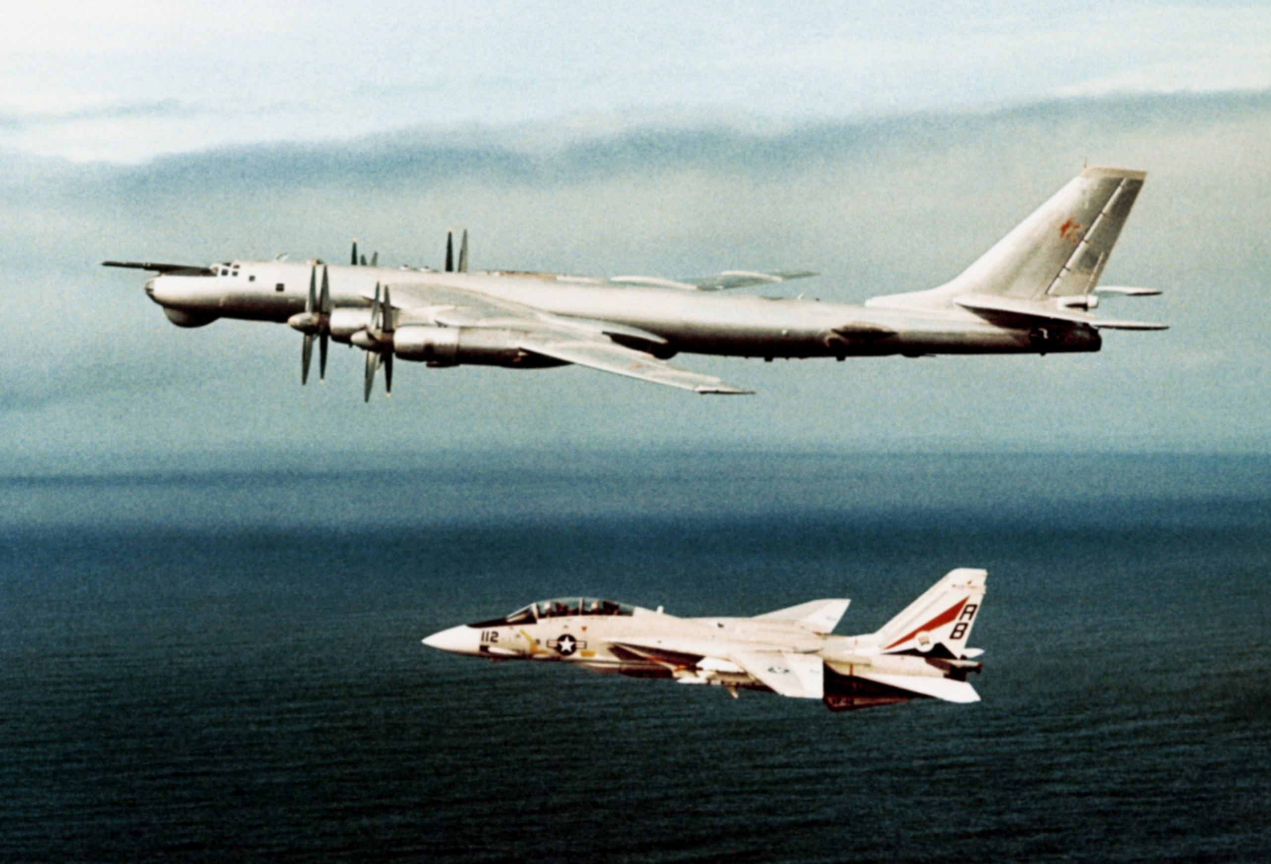 A U.S. Navy Grumman F-14A Tomcat from Fighter Squadron VF-14 Top Hatters intercepts a Soviet Tupolev Tu-95RTs (NATO reporting code "Bear D") over the Mediterranean Sea on 15 February 1977. VF-14 was assigned to Carrier Air Wing 1 (CVW-1) aboard the aircraft carrier USS John F. Kennedy (CV-67) for a deployment to the Mediterranean Sea from 15 January to 1 August 1977.